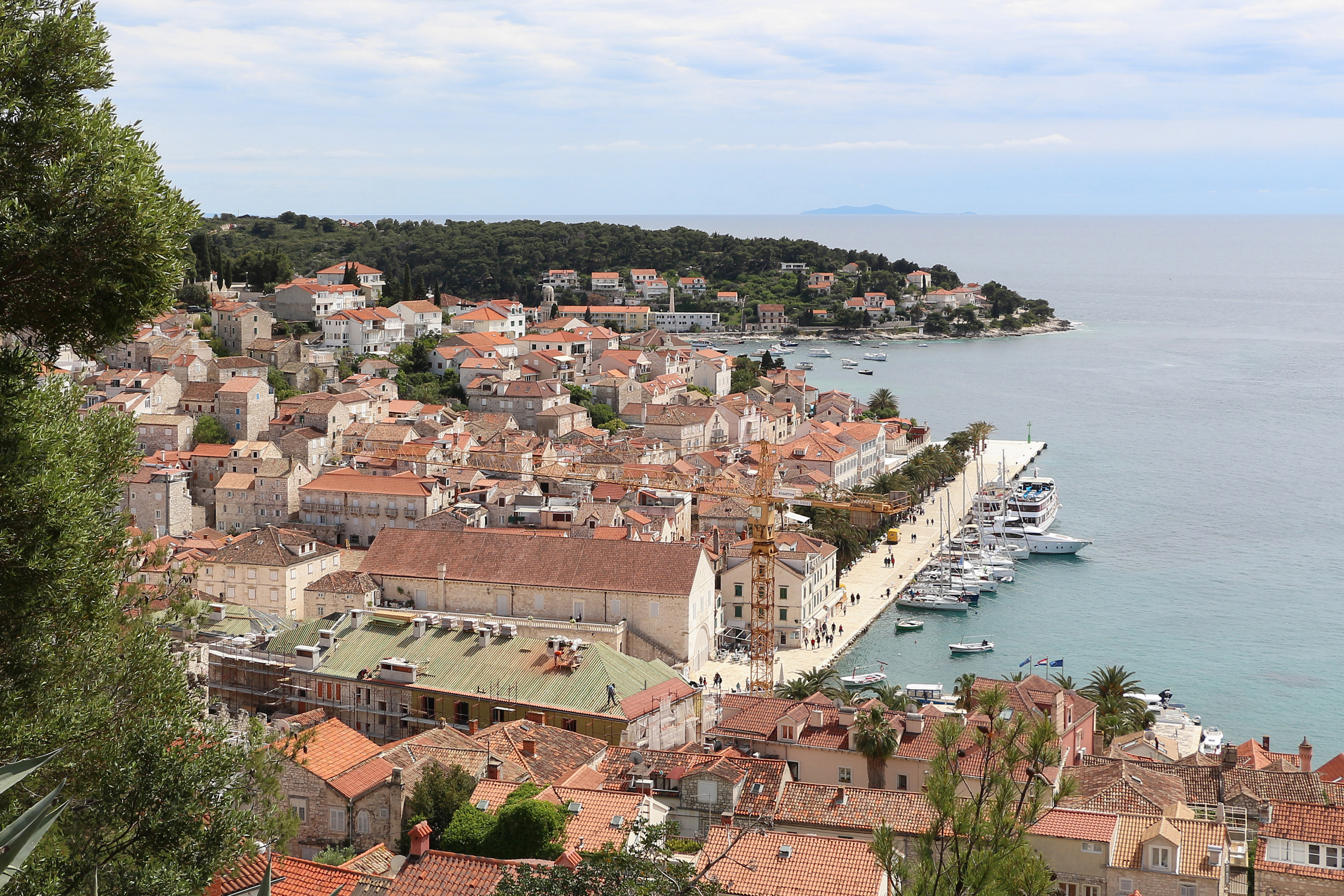 View of Hvar from the Spanish Fortress, Croatia